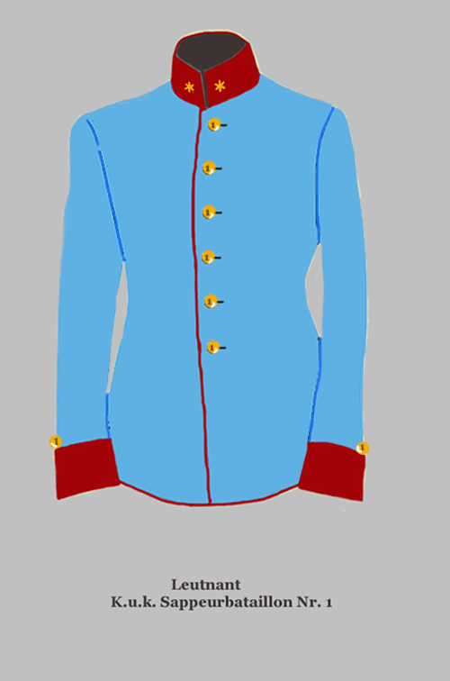 Tunic of an Lieutenant of the k.u.k. Sappers